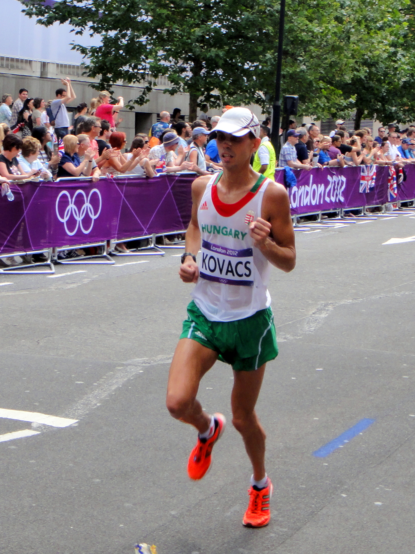 Tamas Kovacs (Hungary) - London 2012 Men's Marathon